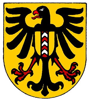 Coat of arms city of Neuchâtel (Switzerland)